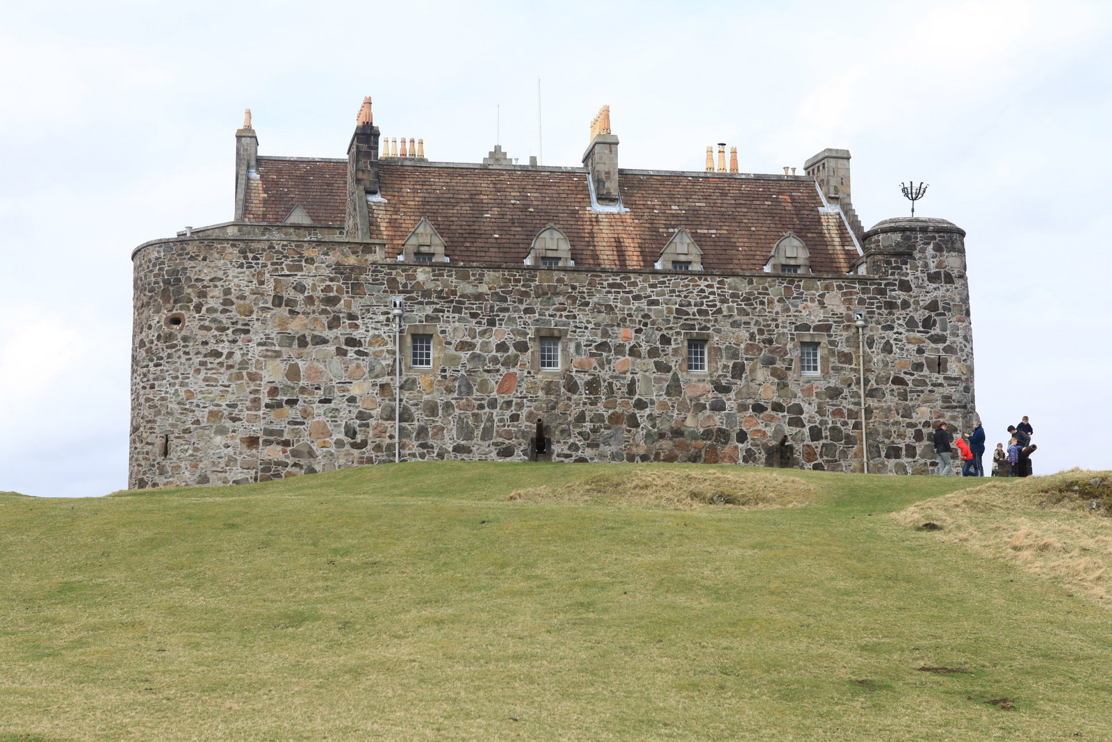 Duart Castle Duart is a very interesting Castle to visit. Duart Castle can be seen in the film "When Eight Bells Toll" based on a Novel by Alistair Maclean. For further details Further details about the Castle can be found at: The James Bond novel by Ian Fleming is possibly based on the life of Fitzroy Hew Maclean, for more details There is a famous protected shipwreck, the Swan which foundered next to the cliffs of Duart Point, for more details It is said that the ship was wrecked very close to the shore and the sailors cries for help could clearly be heard, however nothing could be done to save them in the storm, which caused the ship to founder.